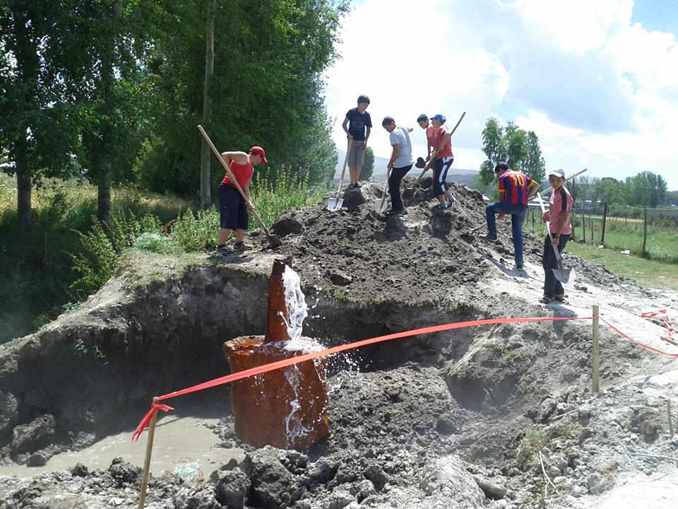 Residents of Lichk, Armenia attempt to repair damage done on August 7, 2013 to the village spring.